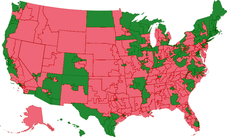 US House of Representatives Voting Map for HR3962